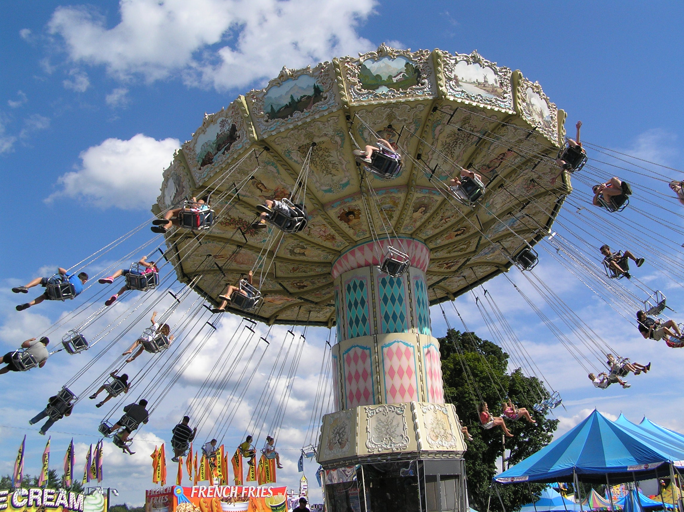 People having fun on a ride at the Dutchess County Fair in August, 2012